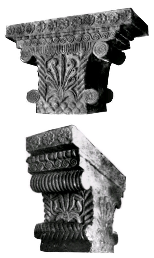 Monumental capital with Greek artistic influence, discovered in 1895 at the royal palace in Pataliputra, India, by L.A. Waddell. Dated to the early Mauryan period. It has been described as a "Perso-Ionic capital" (Journal of the Royal Asiatic Society of Great Britain and Ireland). Excavated at Bulandi Bagh in Patna. Patna Museum. Length 49 inches (1.23 meters), height 33.5 inches (0.85 meter). Unpolished buff sandstone. A much more modern photograph. A 2018 photograph while at an exhibit in Mumbai. and here also.